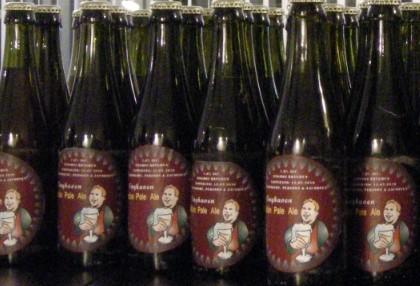 Sennepshaven Pale Ale beer